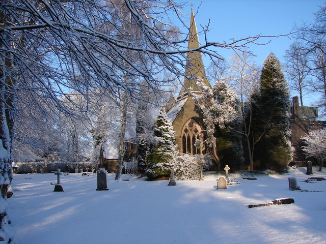 St Michaels Church Boldmere